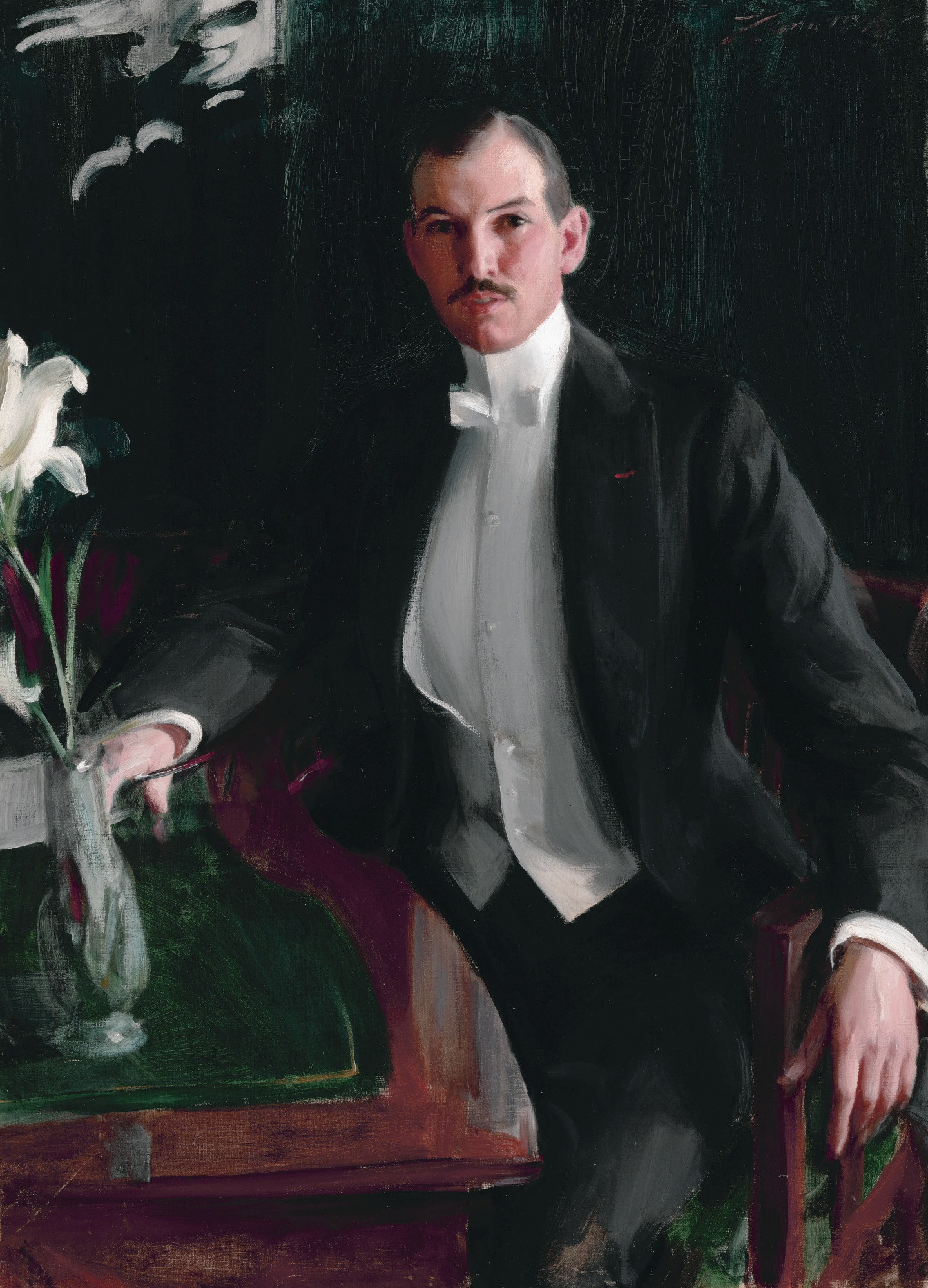 Harald Bildt oil on canvas 125.4 x 90.2 cm signed t.r.: Zorn 1908